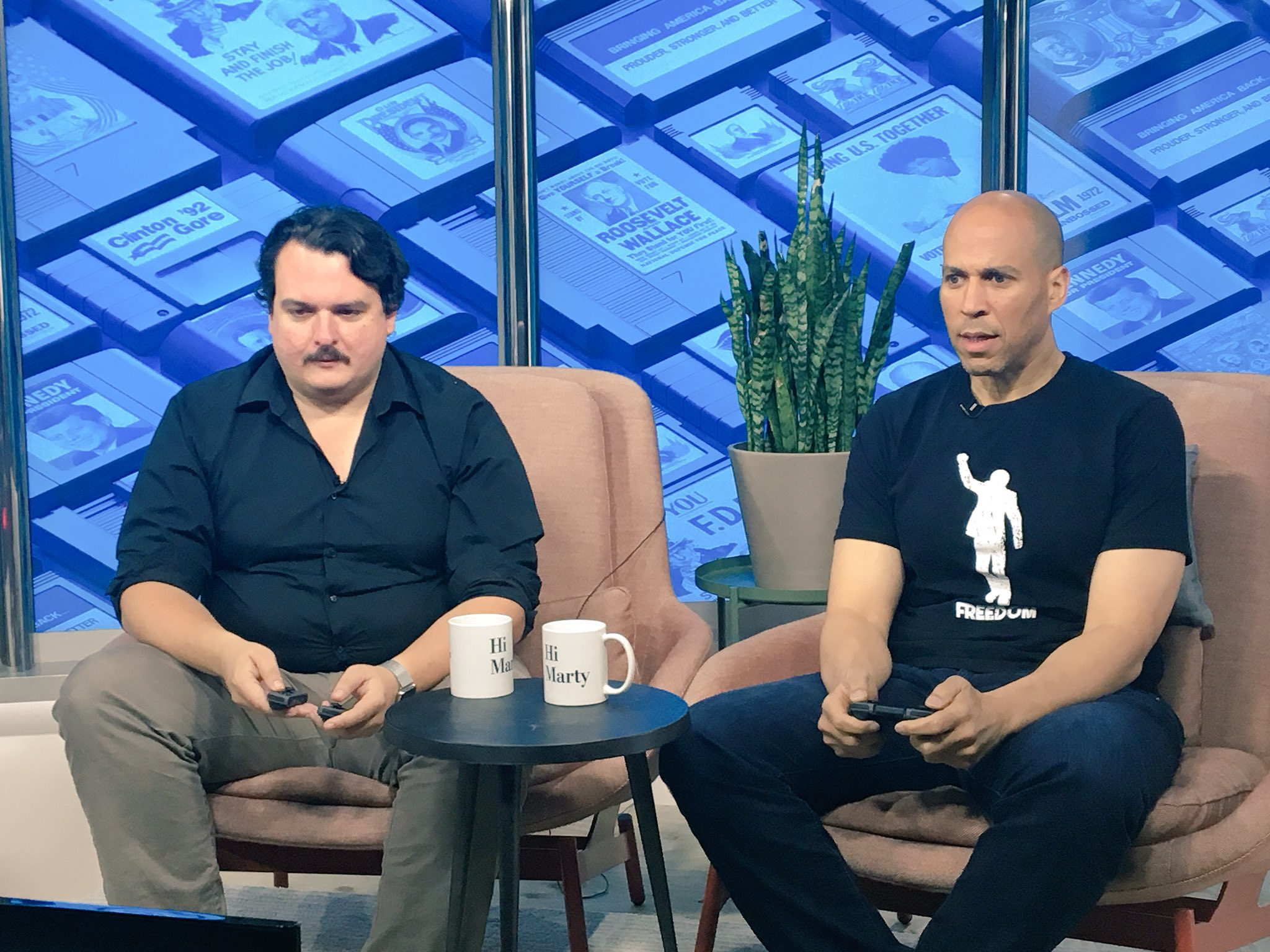 At the @WashingtonPost right now to play Pac-Man and talk politics with @daveweigel. Tune in NOW on Twitch to watch!